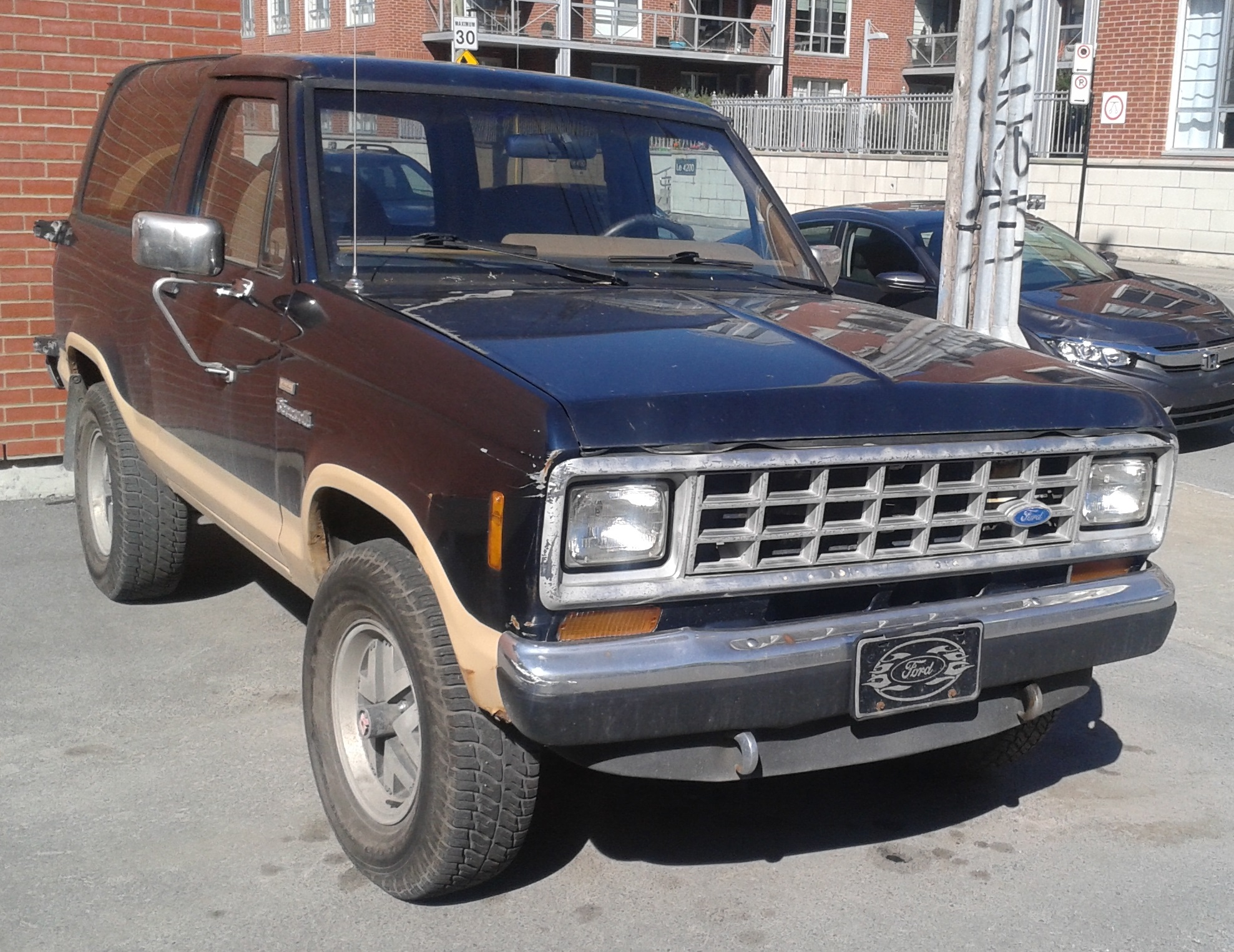 1987-1988 Ford Bronco II Eddie Bauer photographed in Montréal, Québec, Canada.